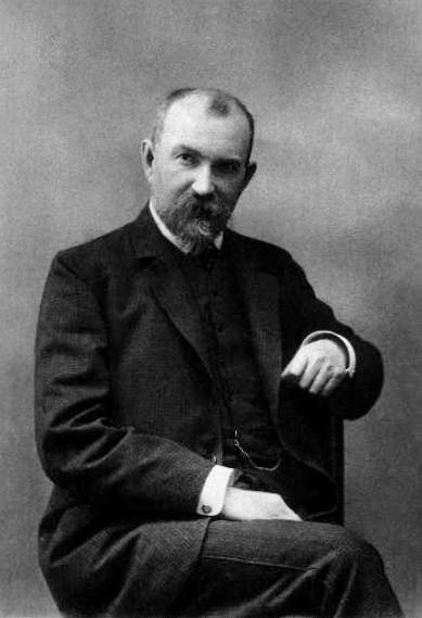 Russian writer Alexander Ertel